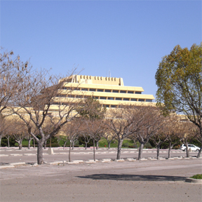 Ziggerat in Laguna Niguel, California